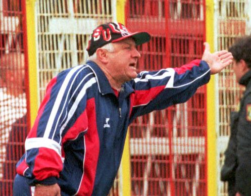 Florin Halagian in the early/mid 90's.